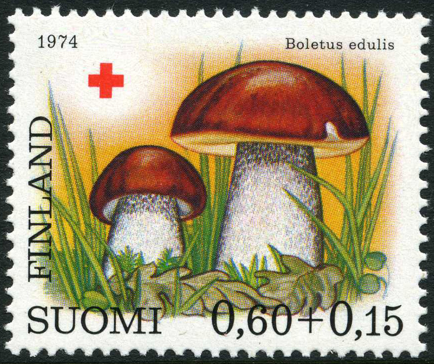 Postage stamp depicting a Finnish sample of Boletus edulis